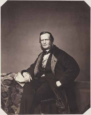 The bavarian diplomat Wilhelm von Dönniges (1814-1872)